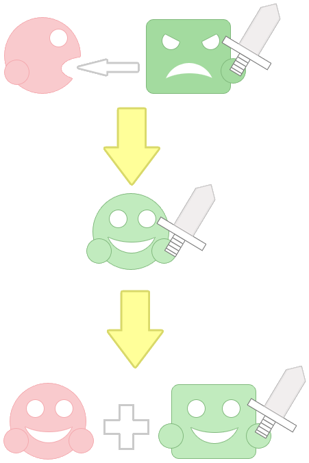 Picture describing some of the gameplay of Kirby videogame series. First row shows Kirby (depicted as a pink circle) sucking an enemy (green square) with a sword. Second row shows Kirby who has obtained the sword ability from the enemy. Third row shows Kirby with a helper which was created from the sword ability Kirby obtained before.